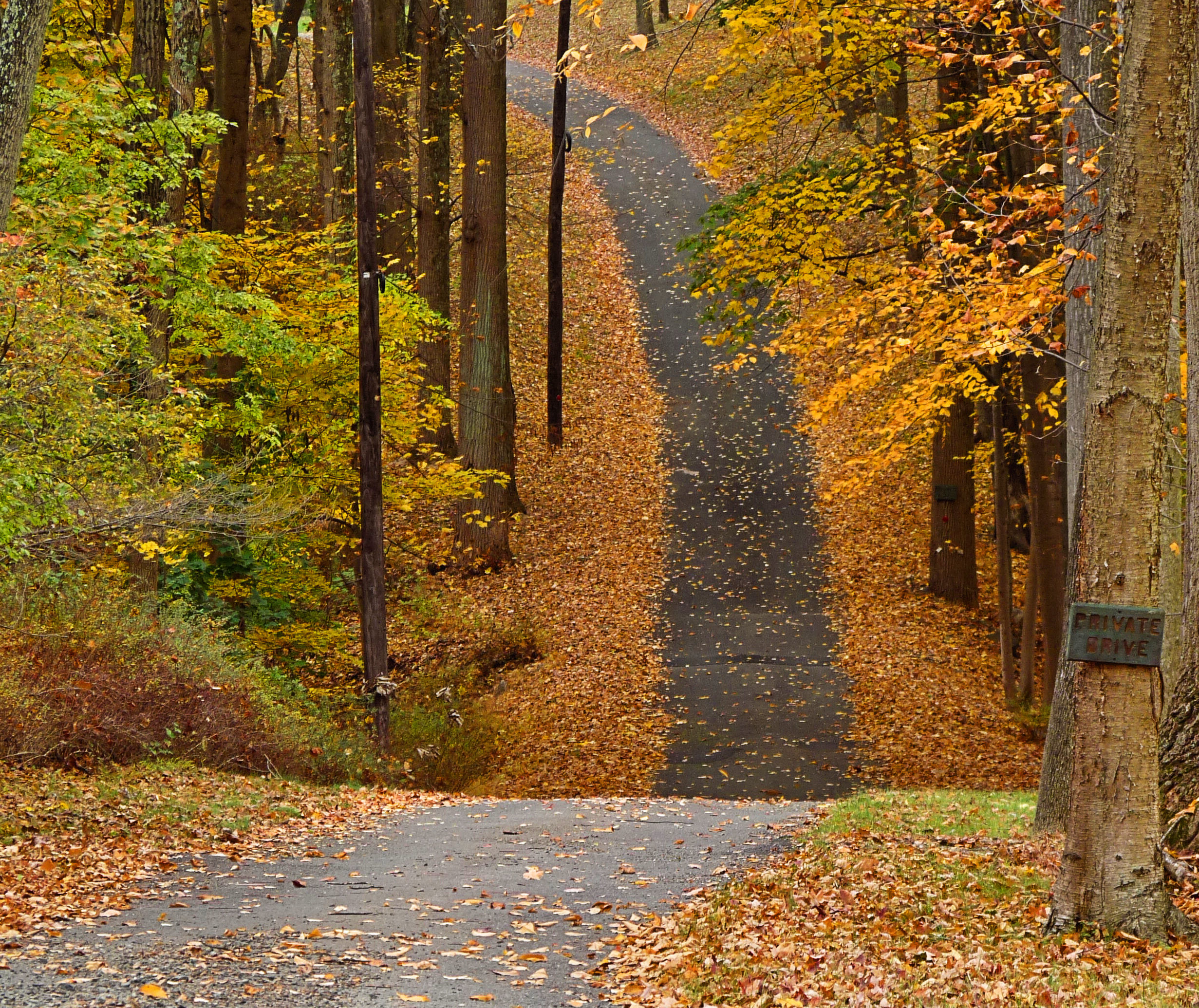 Tucked in the back hills of Basking Ridge, New Jersey